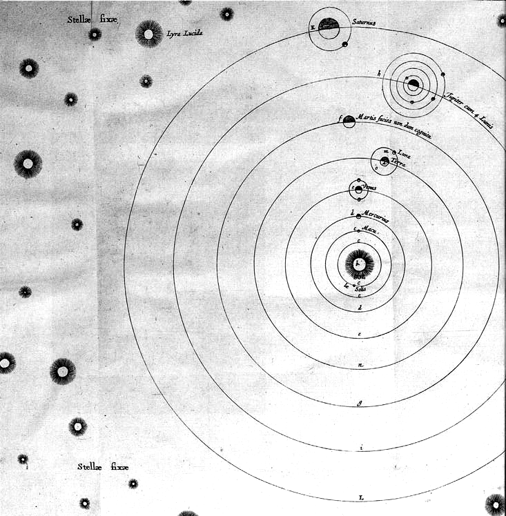 Otto von Guericke’s system of the world, without the stellar sphere. Note also two satellites of Venus and intramercurial planets